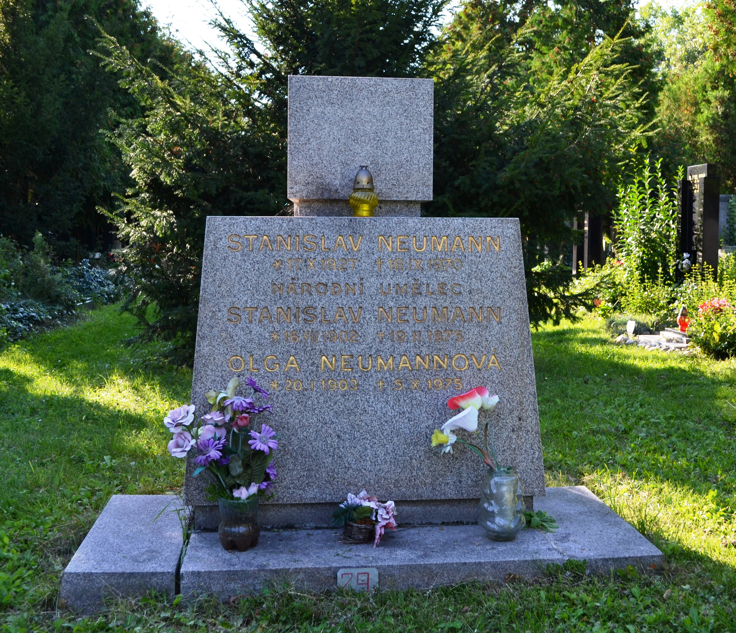 Tomb of Czech actor Stanislav Neumann at Vinohrady Cemetery in Prague